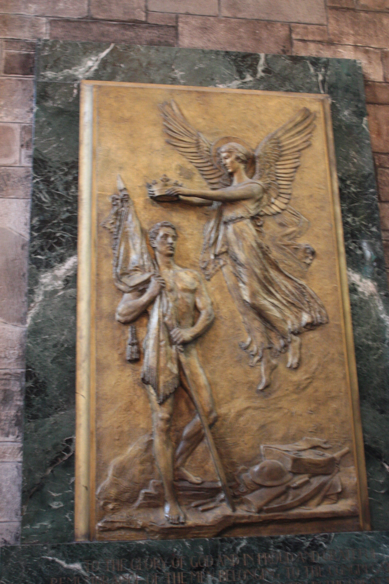 War memorial to Royal Scots, NW corner, St Giles Cathedral, Edinburgh by H.S.Gamley